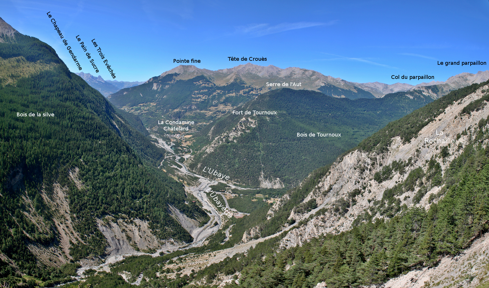 The Ubaye-Ubayette confluence as seen from the slopes of the Rochaille. Literal translation of place names are given on the larger, unlegended version of this picture. Alpes-de-Haute-Provence département, France.